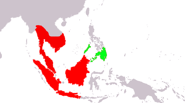 Ditribution of the order Dermoptera, green=Cynocephalus volans, red=Galeopterus variegatus